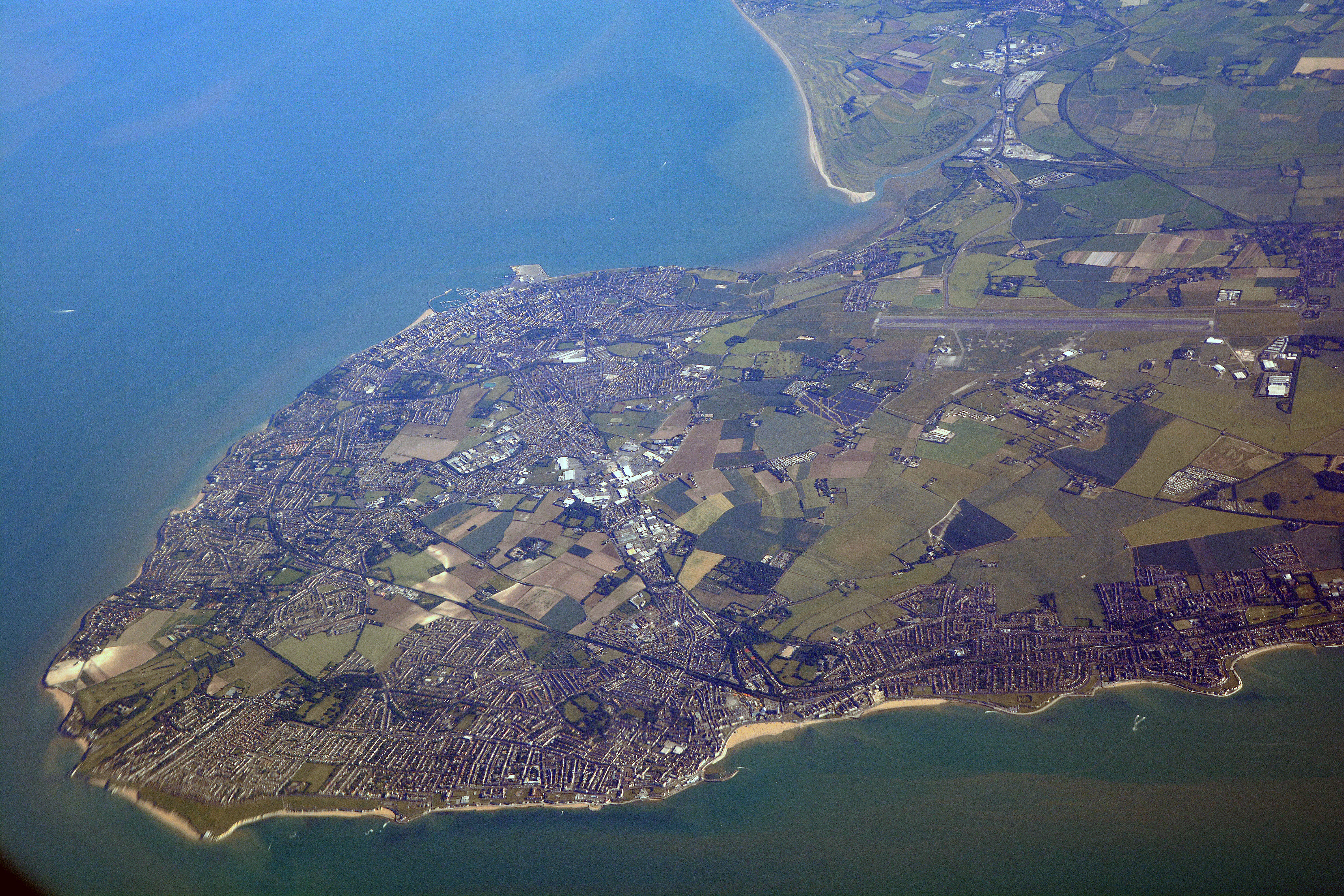 Thanet : Thanet Scenery